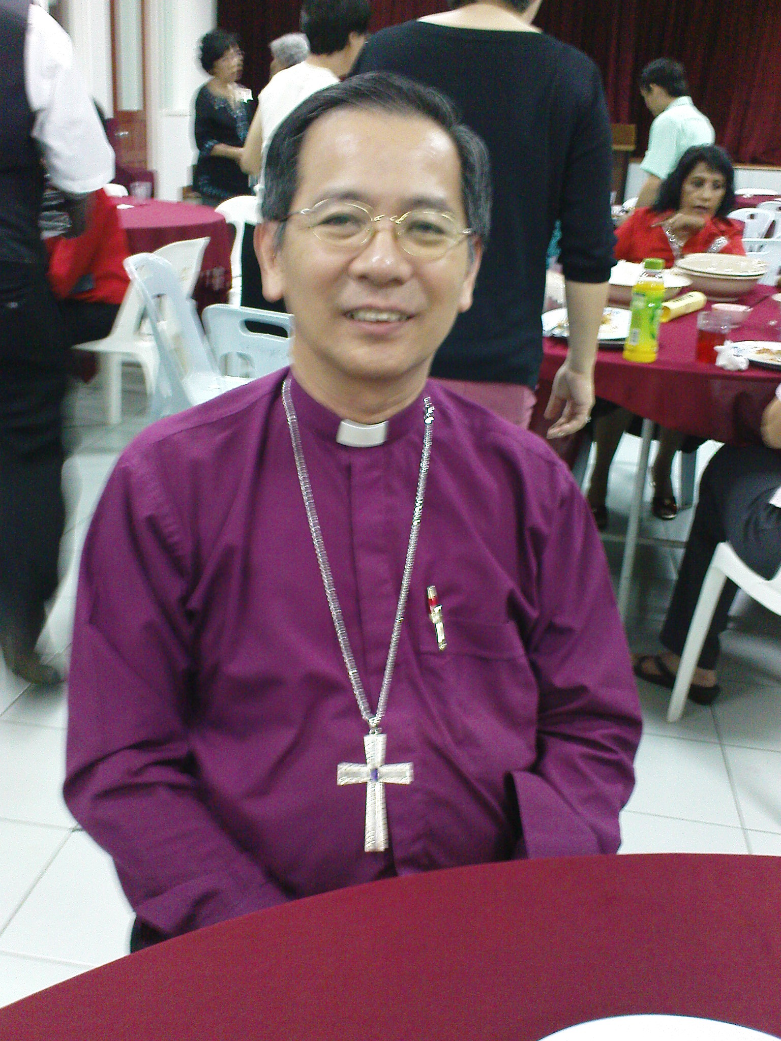 Photo of Ng Moon Hing, the Anglican Bishop of the Diocese of West Malaysia